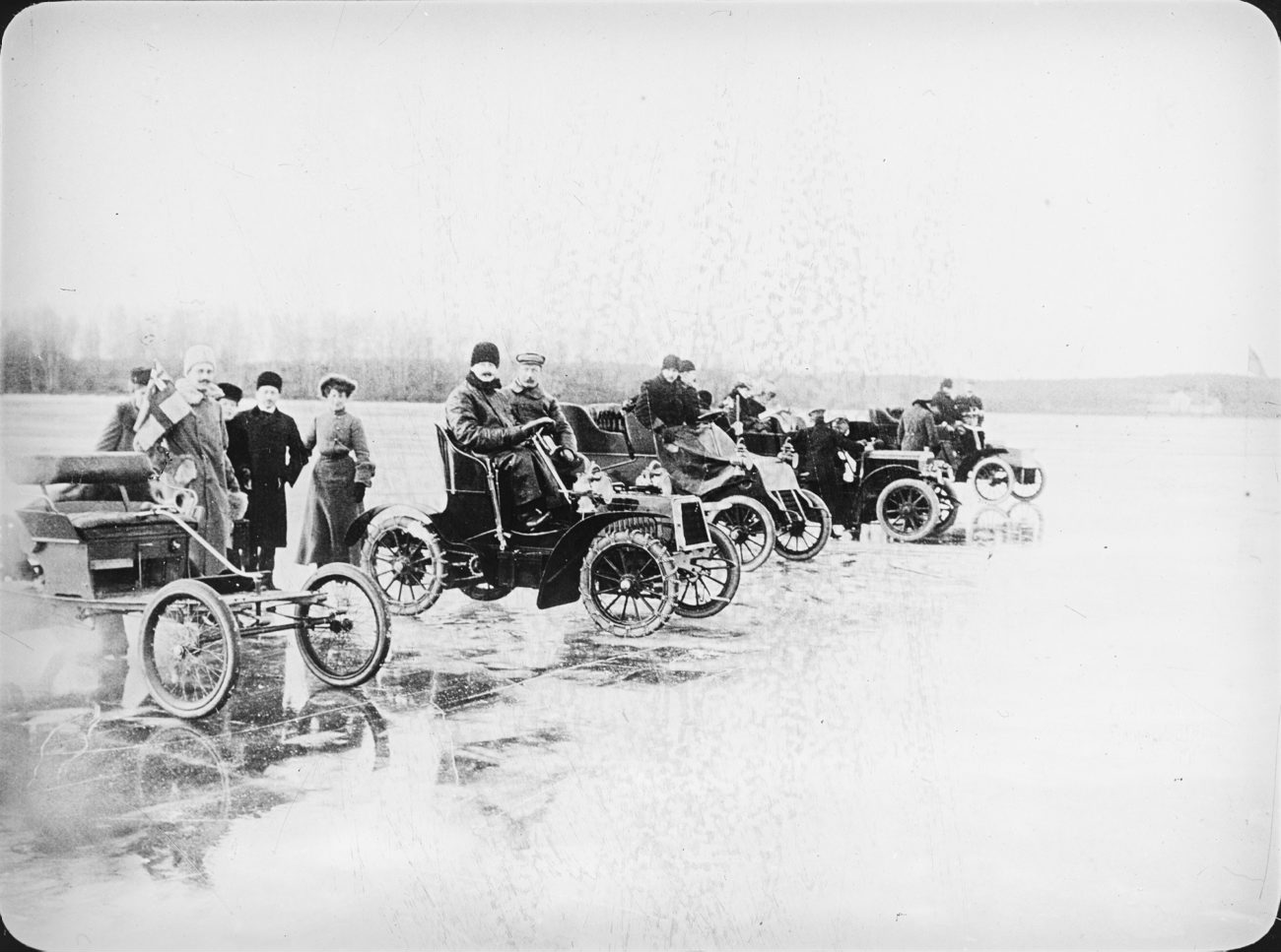 B19800 Ljusbild. Motortävling på isen. Lantern slide. Car race on the ice. Photo: Okänd/ Unknown, 1890-1900.